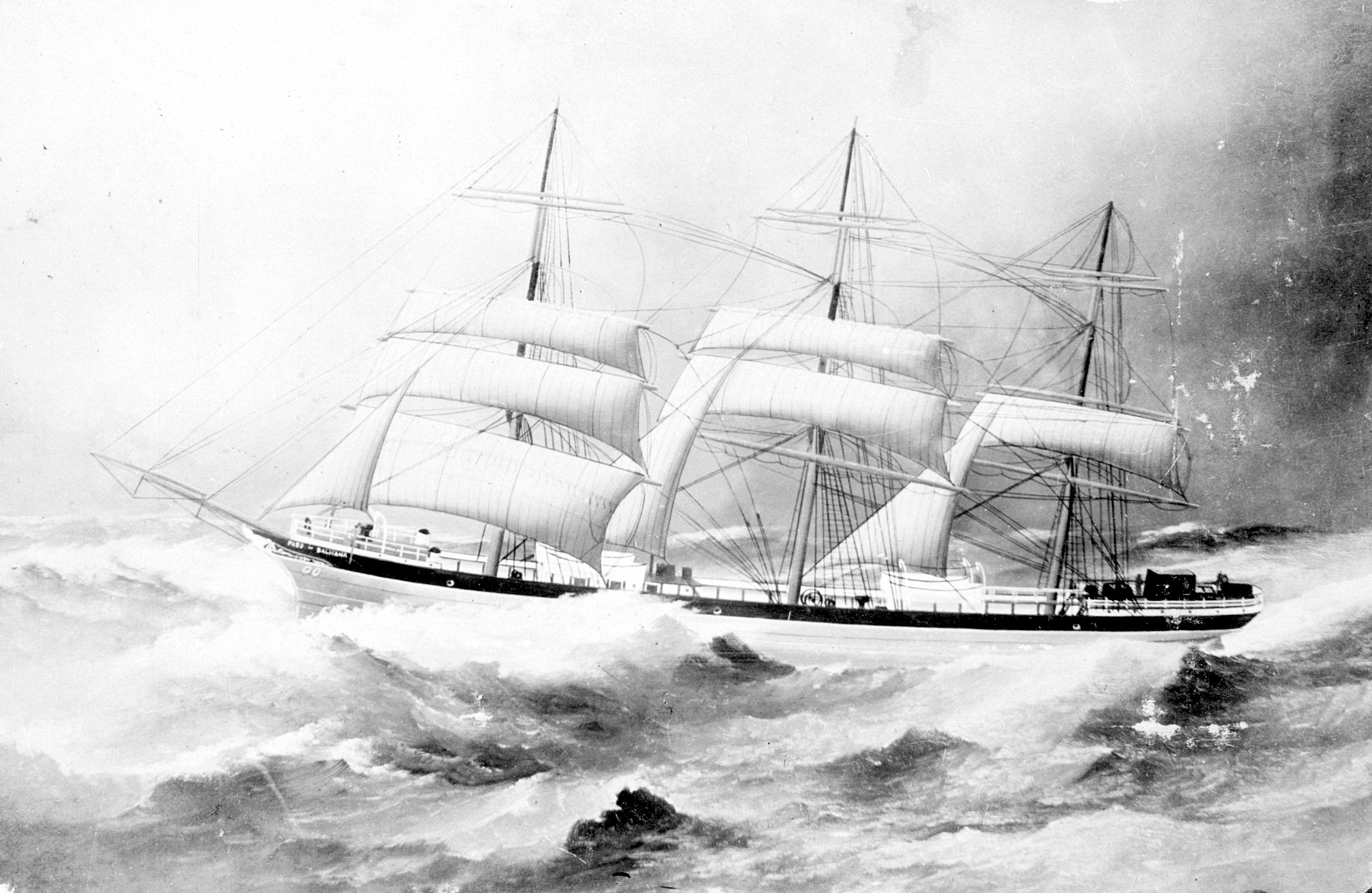 Original caption: “PASS OF BALMAHA, Glasgow. 1498 tons. Built at Pt. Glasgow. 1888. Photograph of an earlier painting.”